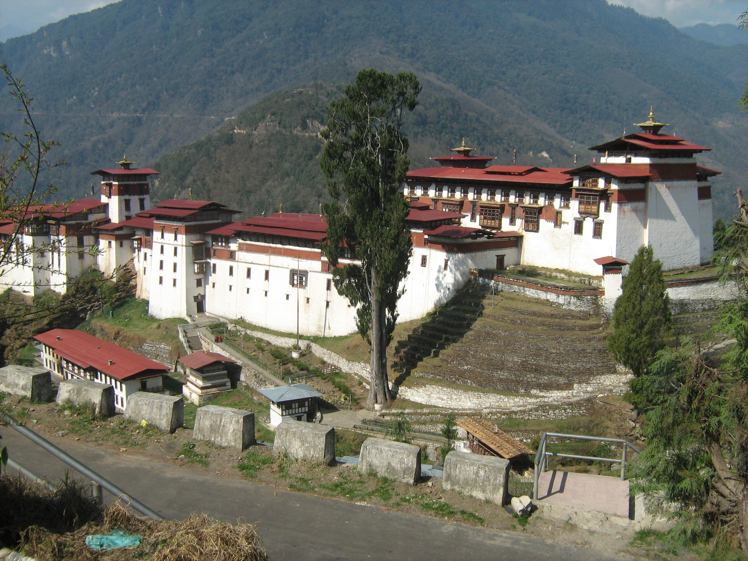 Tronsa Dzong, Trongsa, Bhutan